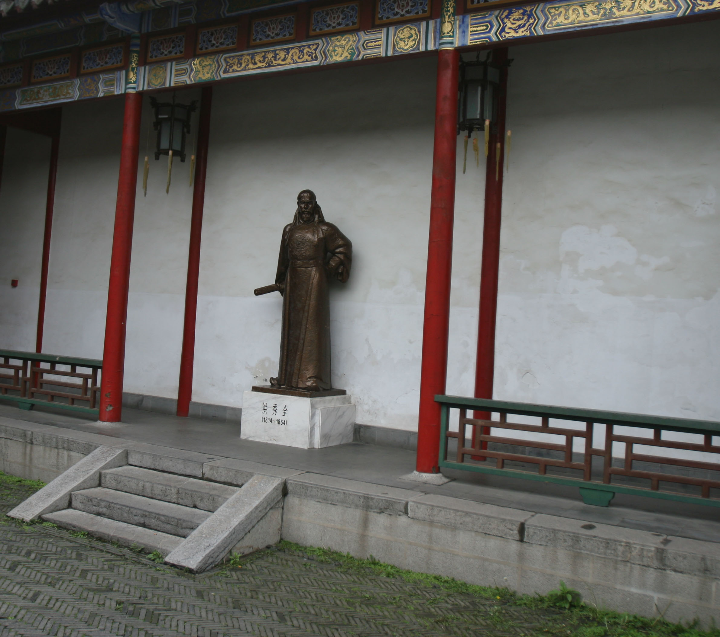 Hong Xiuquan's figure in TianWang Fu (now the Presidential Palace), Nanjing. Photographed by Farm